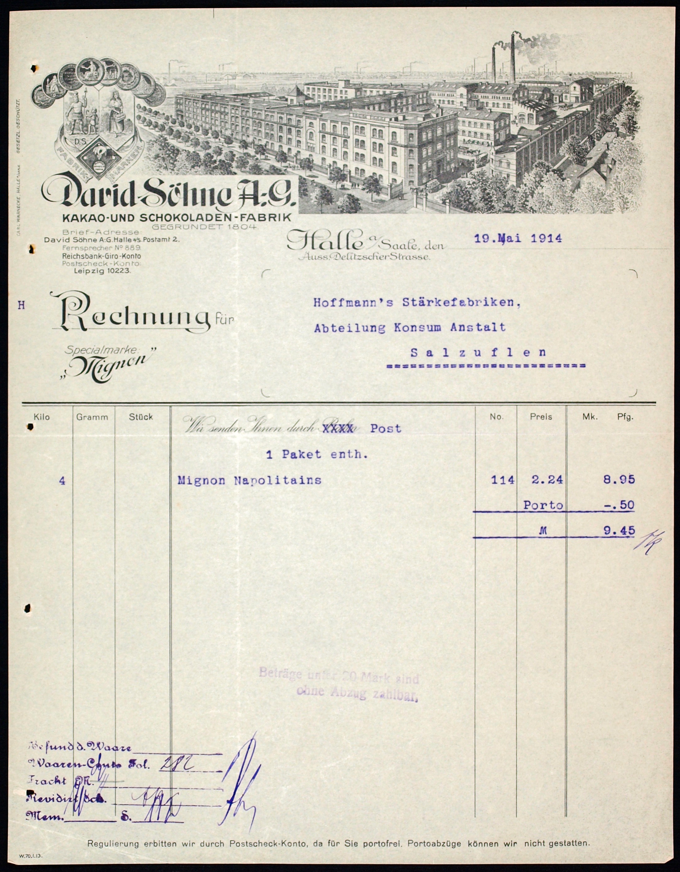 Bill of the David Söhne AG, issued 19. May 1914